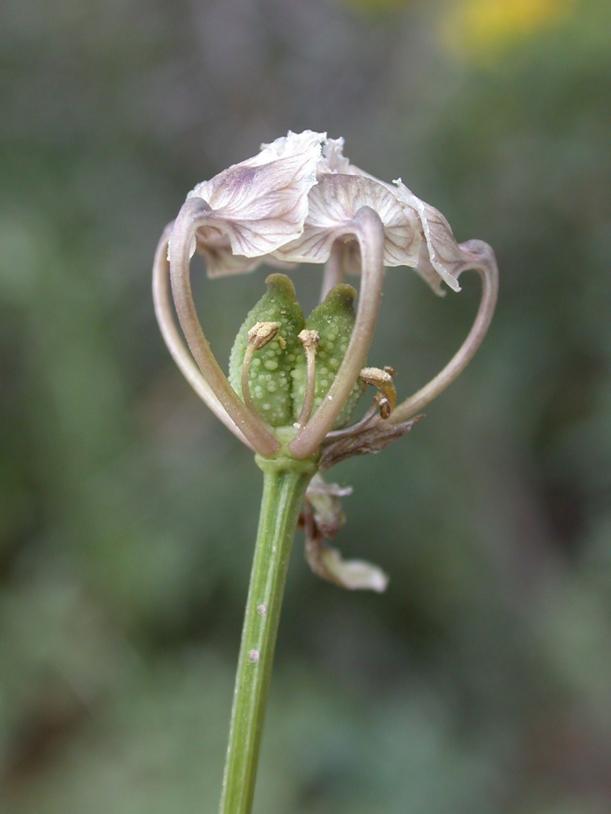 Developing fruit of Garidella unguicularis Poir., Ramat Hanadiv, Mount Carmel, Israel, April 24, 2009. Other names: Nigella unguicularis (Poir.) Spenner.